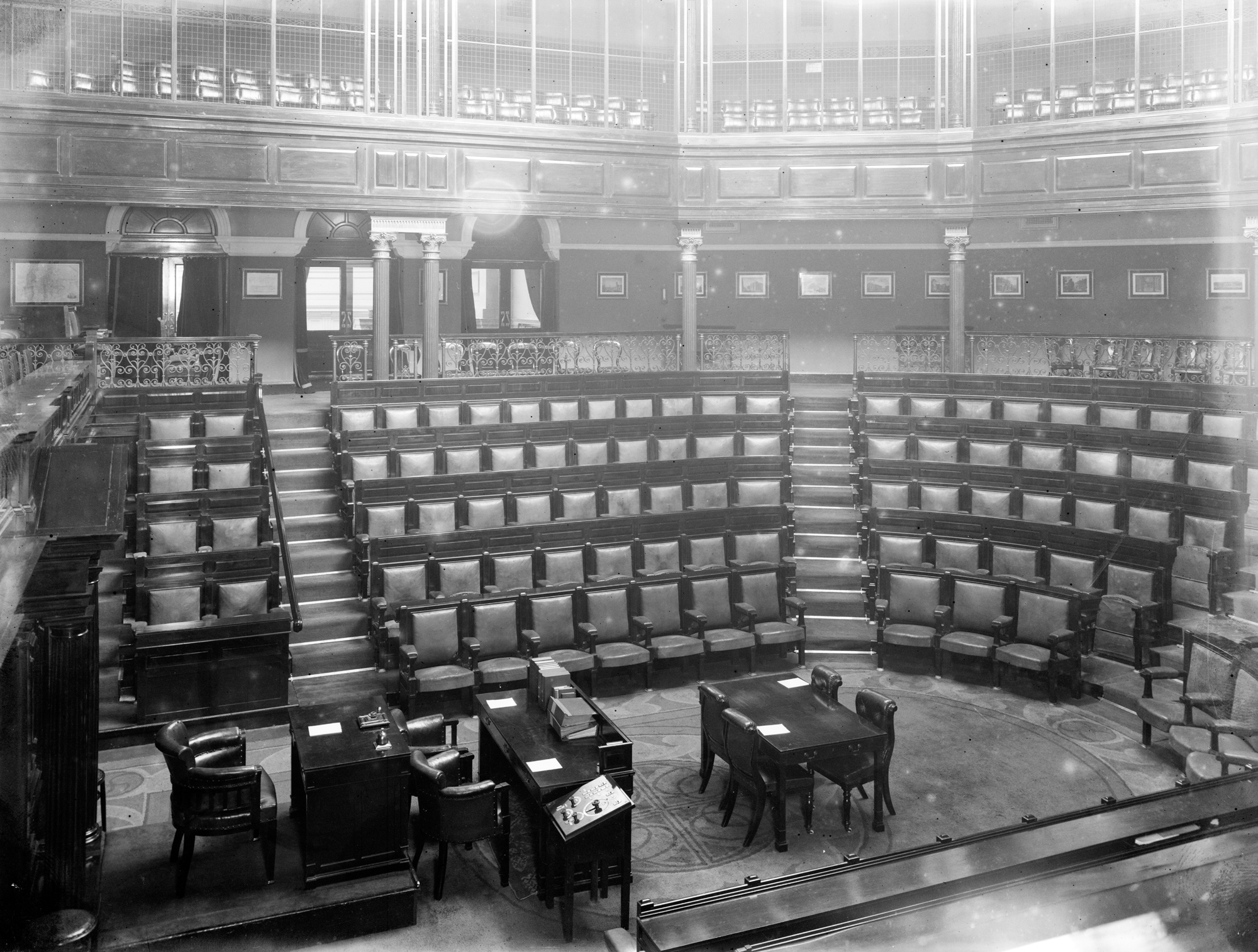 Until the advent of television, sights such as this were relatively rare, the inside of the national parliament was considered almost sacrosanct. Now the activity there is streamed live, relevant clips appear daily on the news channels and people are familiar with the appearance and décor. As [/photos/gnmcauley/ Niall McAuley] notes, the main parliament chamber at Leinster House was originally a lecture theatre leased from the Royal Dublin Society. It was bought outright for Dáil use, and redesigned in the mid-1920s (likely putting this image after that date)... Photographer: Unknown Collection: Eason Photographic Collection Date: Catalogue range c.1900-1939. Likely after mid-1920s NLI Ref: EAS_1755 You can also view this image, and many thousands of others, on the NLI’s catalogue at